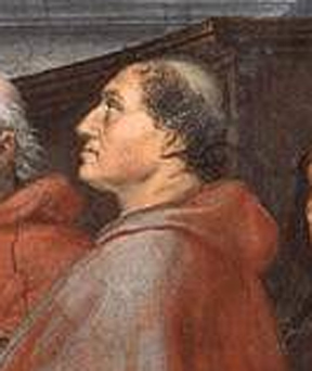 Probably portrait of Cardinal Raffaele Riario. This should be used in preference to the image of a cardinal who looks about 80, and is adjacent to Riario in the fresco. Riaro was 51 or 52 when painted.